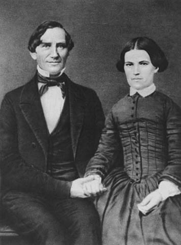 Gideon H. and Agnes C.J. H. Pond; fully listed as Pond, Gideon Hollister (1810-1878) and Pond, Agnes C. Johnson Hopkins.